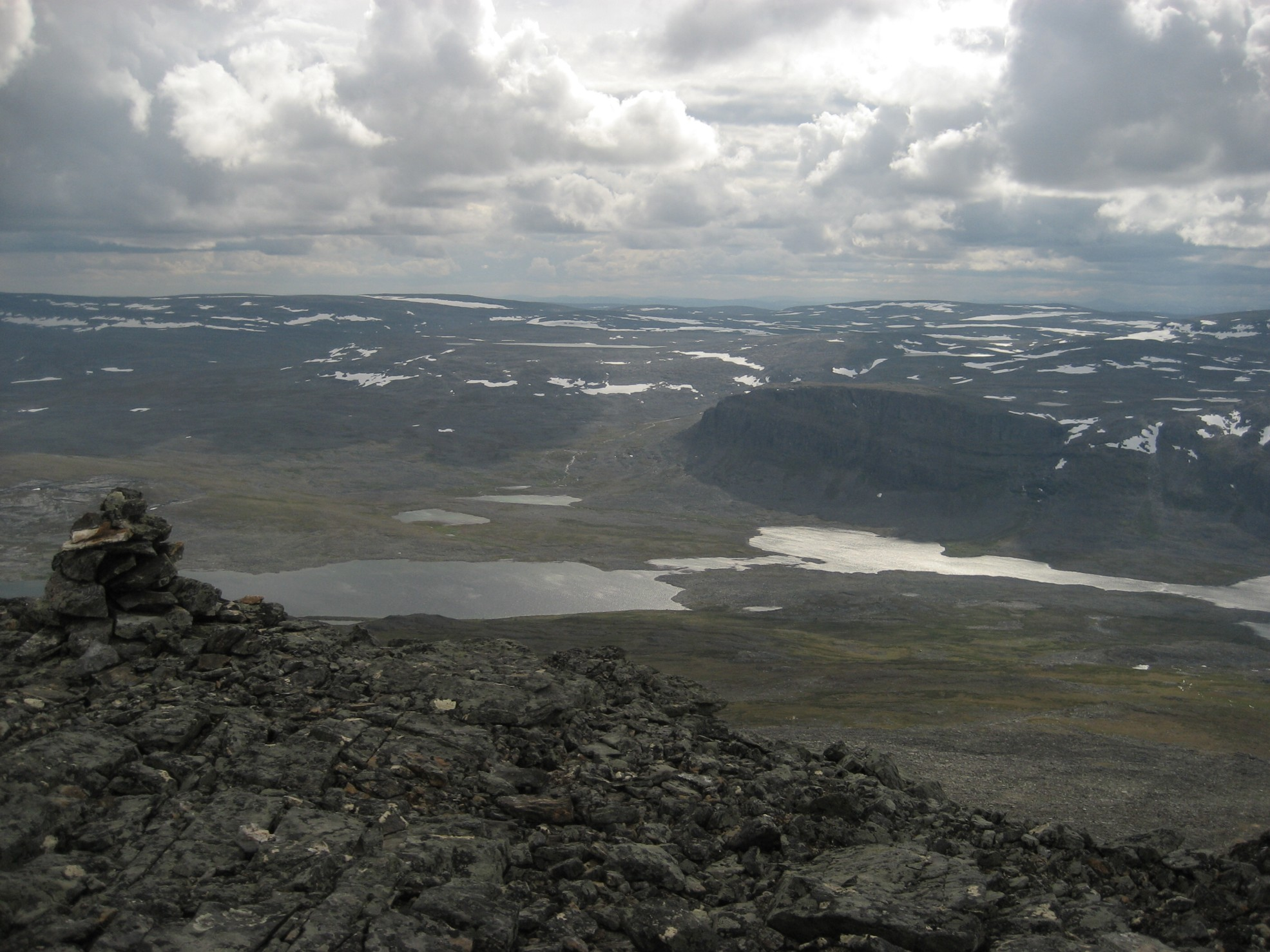 Lake Riimma and Lake Urtas and Urtaspahta mountain seen from Kovddoskaisi mountain in Enontekiö, Finland